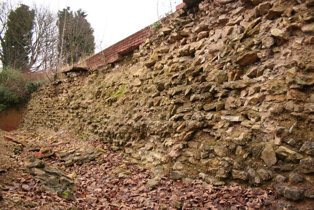 Some of the Roman north wall of Lindum Colonia behind Mary Sookias House on Cecil Street.